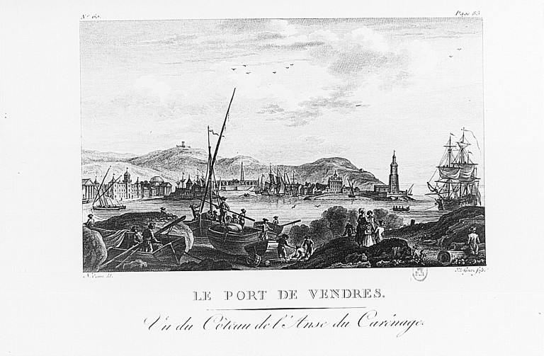 Ozanne, Nicolas-Marie (1728-1811). Port de Port-Vendres Famille Le Clerc, build by Augustin-Joseph de Mailly